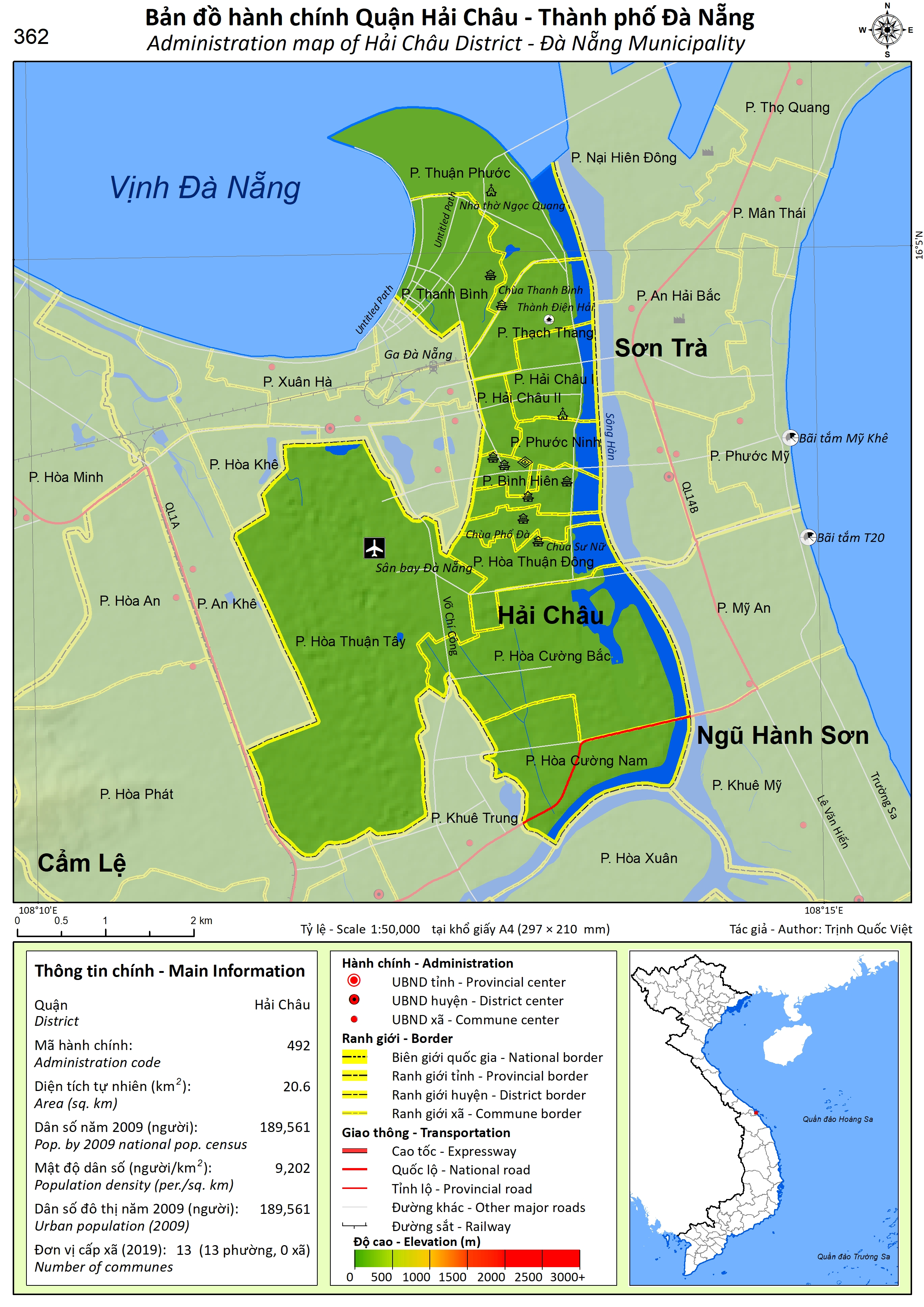 Administration map of Hai Chau District, Danang City